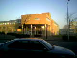 Town Hall of Hoogeveen (the Netherlands)